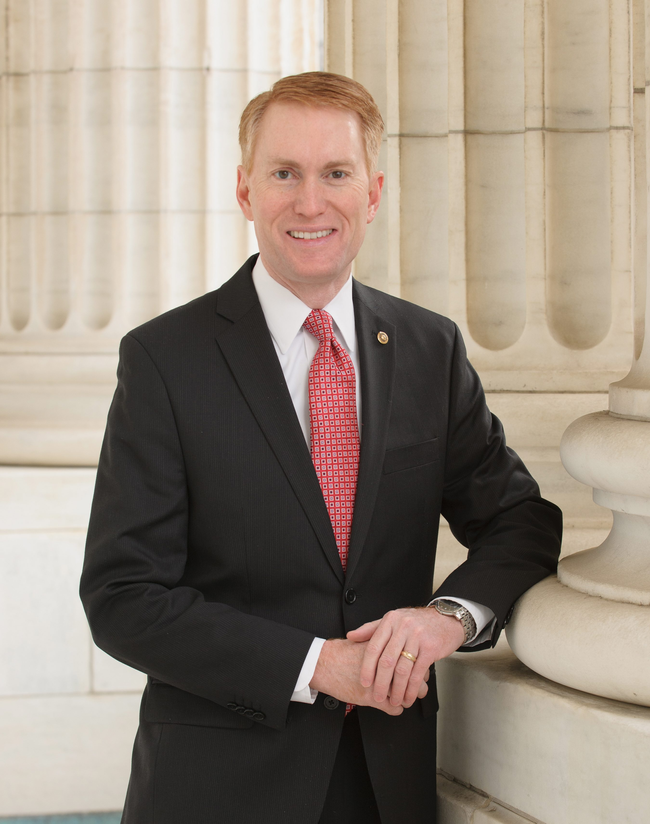 James Lankford Senate photo, 114th Congress